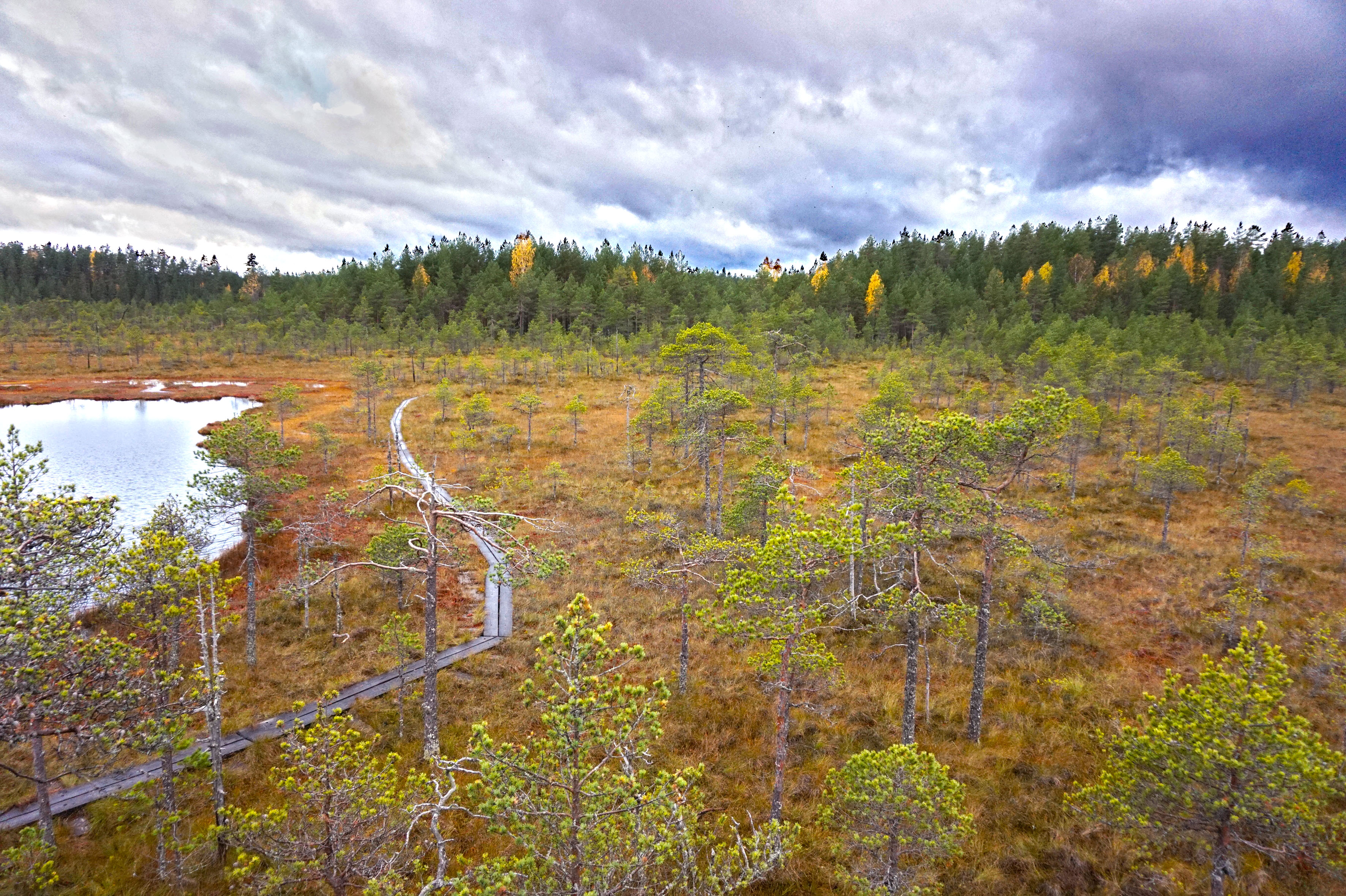 Leivonmäki National ParkThis photograph was taken with a Sony ILCE-5000